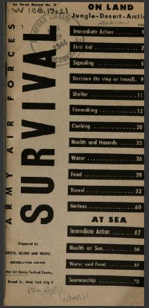 Survival hamdbook of the USAAF from 1944.